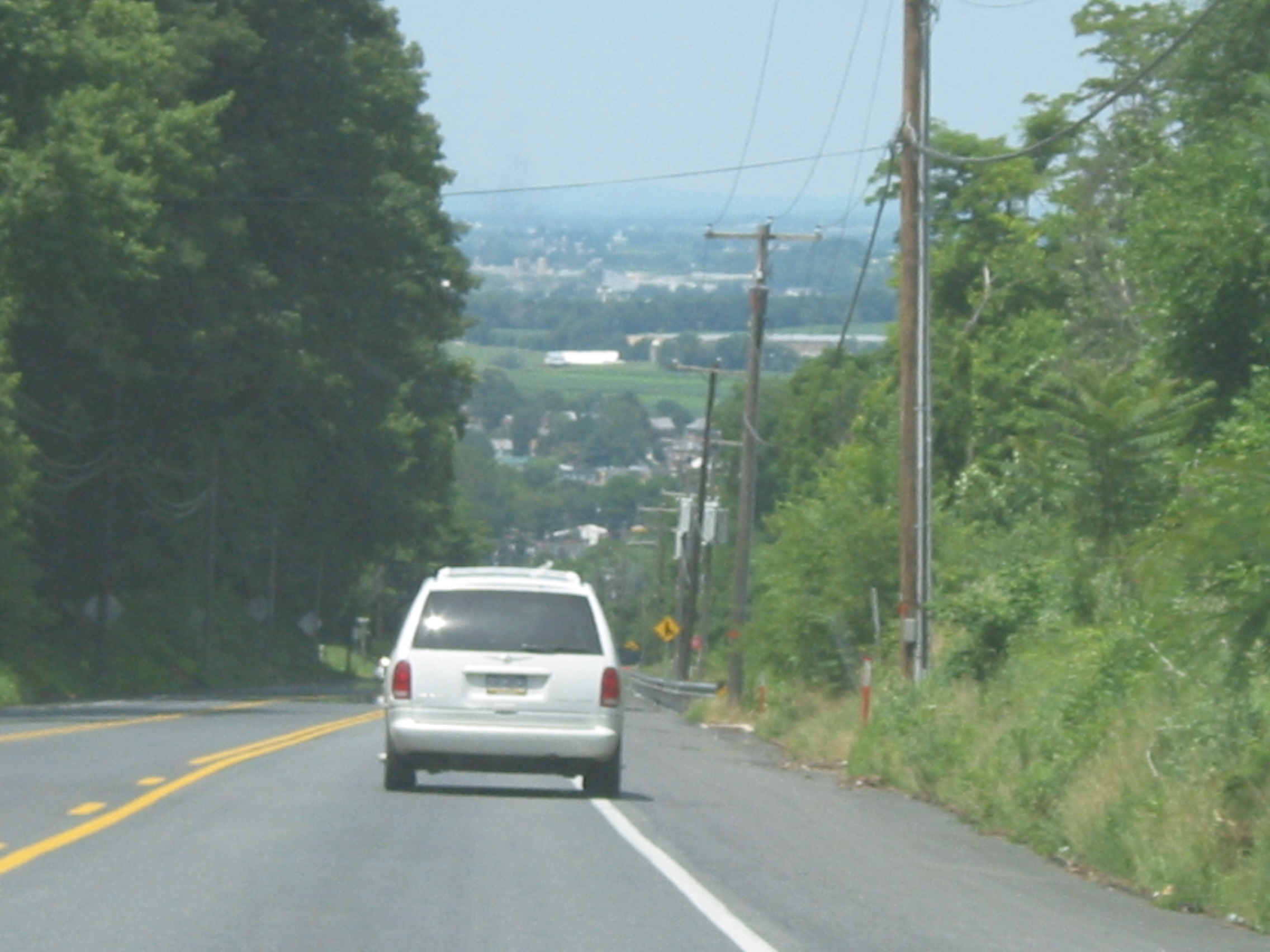 Going down a 5% grade on U.S. Route 30.